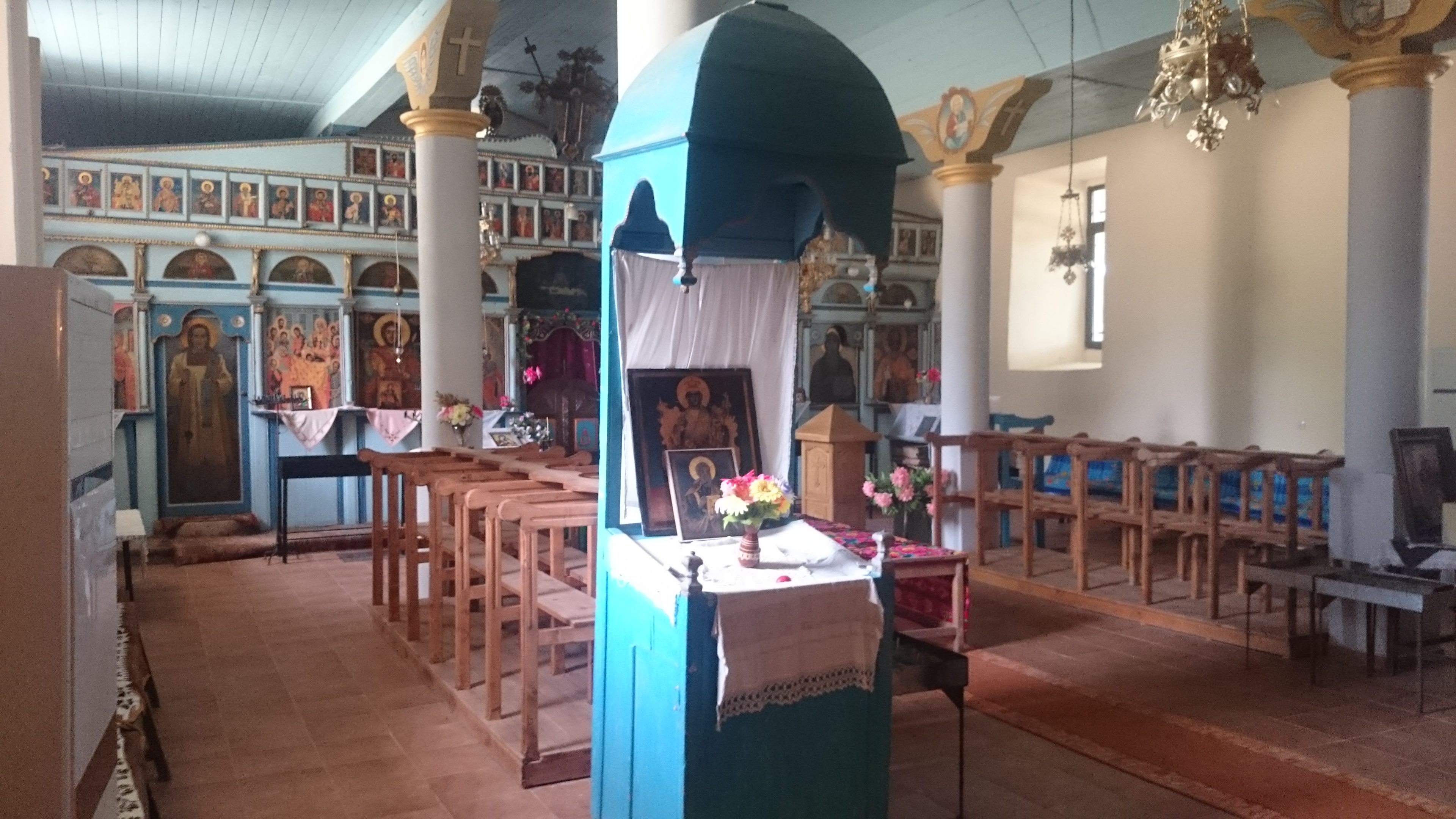 Църква"Свети Теодор Стратилат"